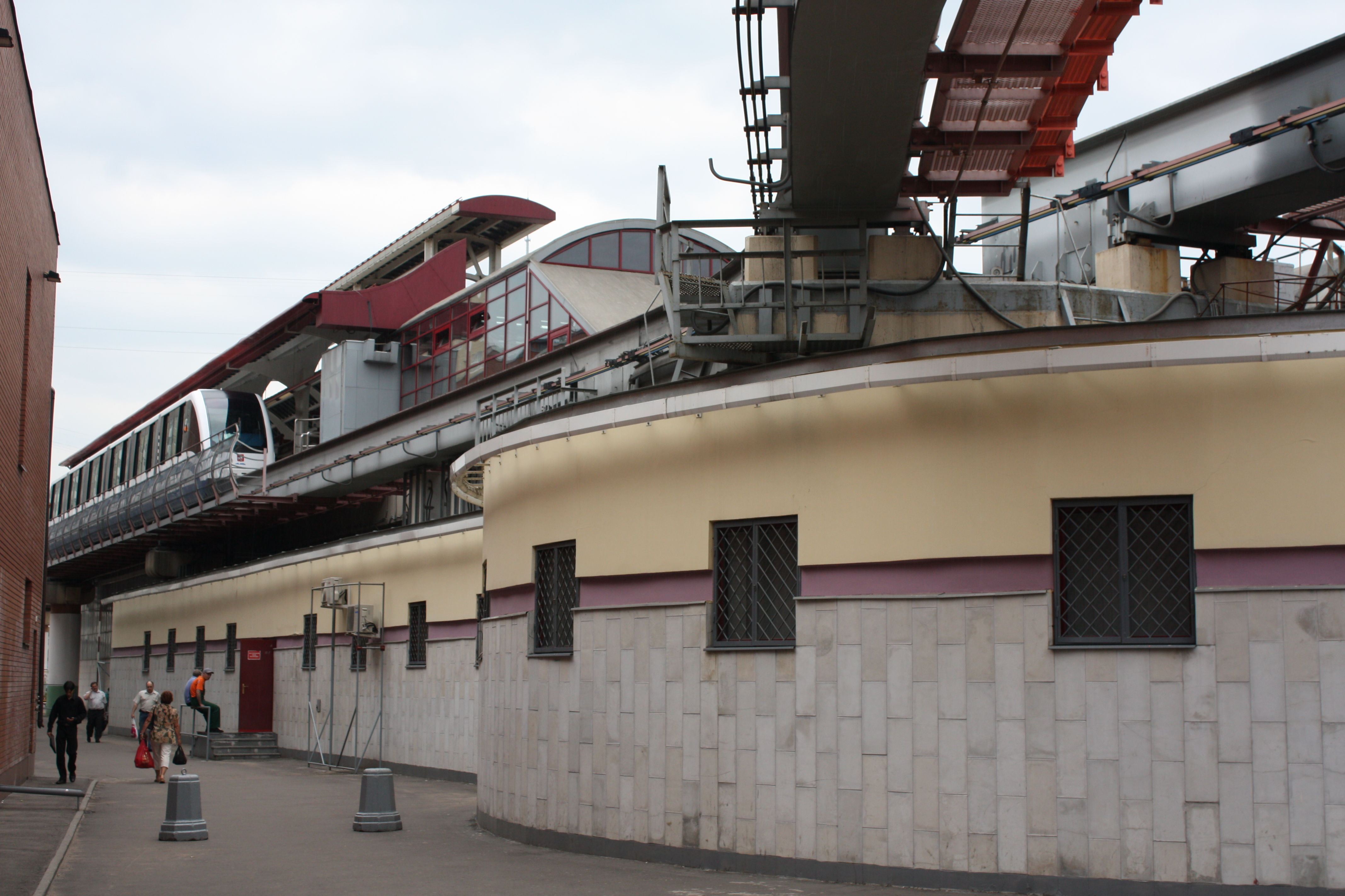 Moscow monorail (look from the bottom to st. Timiryazevskaya).